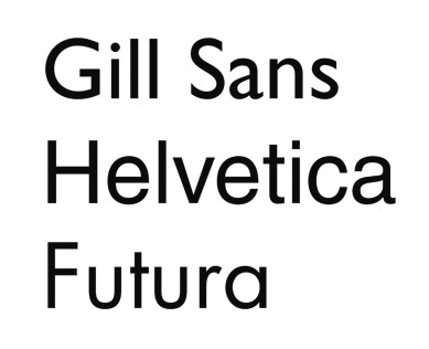 Graphic: Typefaces Sans Serif - Humanistic, Classizistic, Geometric